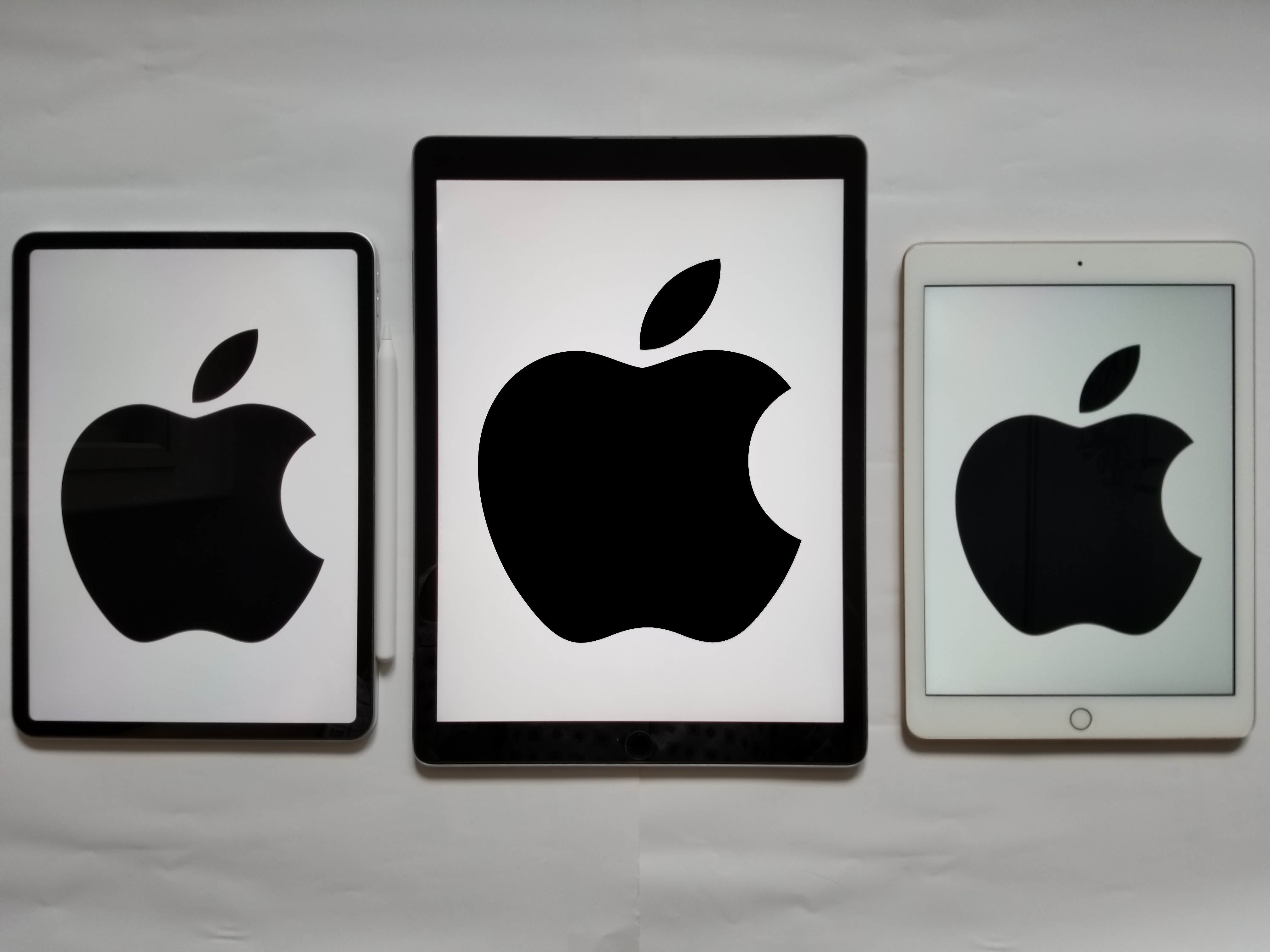 iPad Pro 11″ (silver) iPad Pro 12.9″ (space gray) iPad 9.7″ (gold)